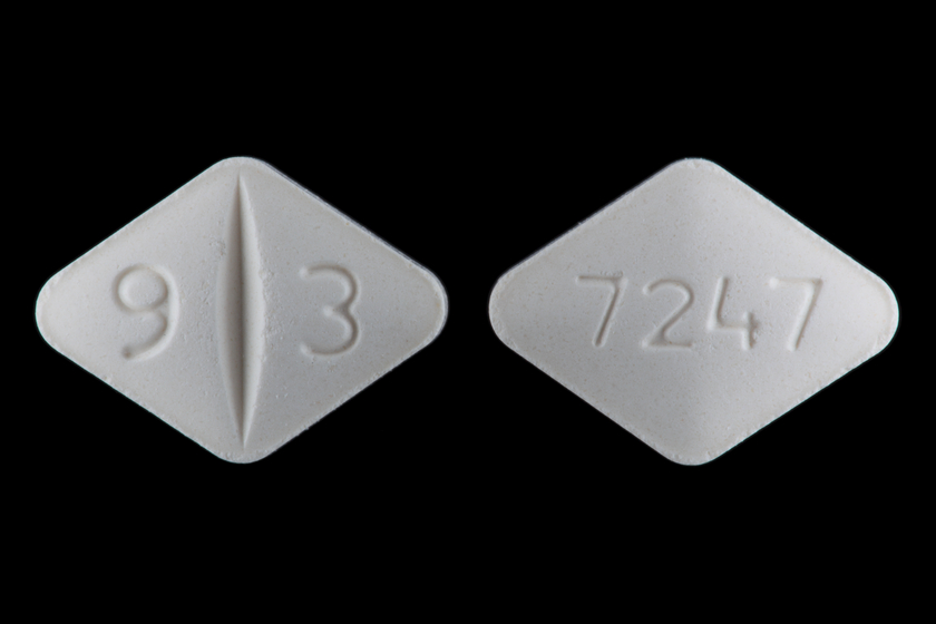 Drug Name: Lamotrigine 150 MG Oral Tablet Ingredient(s): Lamotrigine Drug Label Imprint: 9;3;7247 Color(s): White Shape: Diamond Size (mm): 14.00 Score: 2 Inactive Ingredient(s): Show silicon dioxide / lactose monohydrate / magnesium ... Drug Label Author: TEVA Pharmaceuticals USA Inc DEA Schedule: Non-scheduled